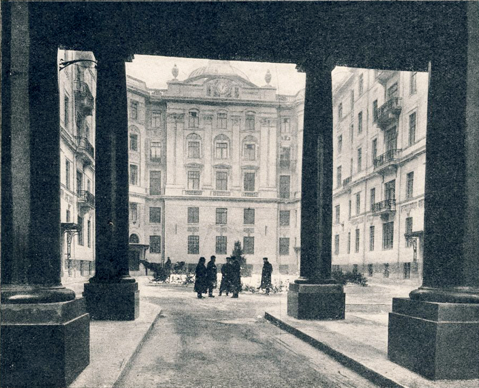 26-28, Kamennoostrovsky av.: "Benois House", Saint-Petersburg, Russia. Architects Leon Benois, Albert Benois, and Jule Benois, 1915.